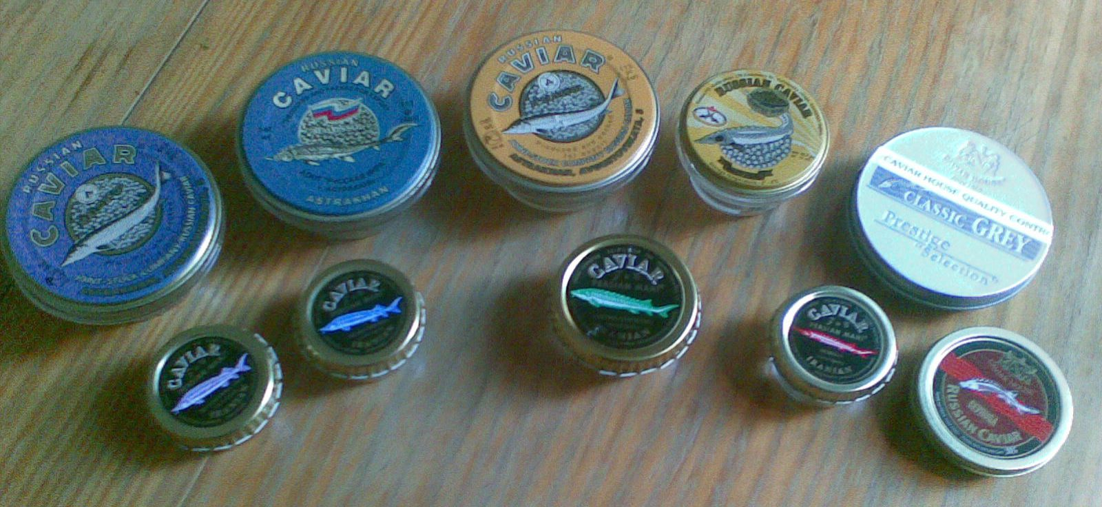 Caviar tins (Russian and Iranian): Beluga on the left, Ossetra on the center, Sevruga on the right